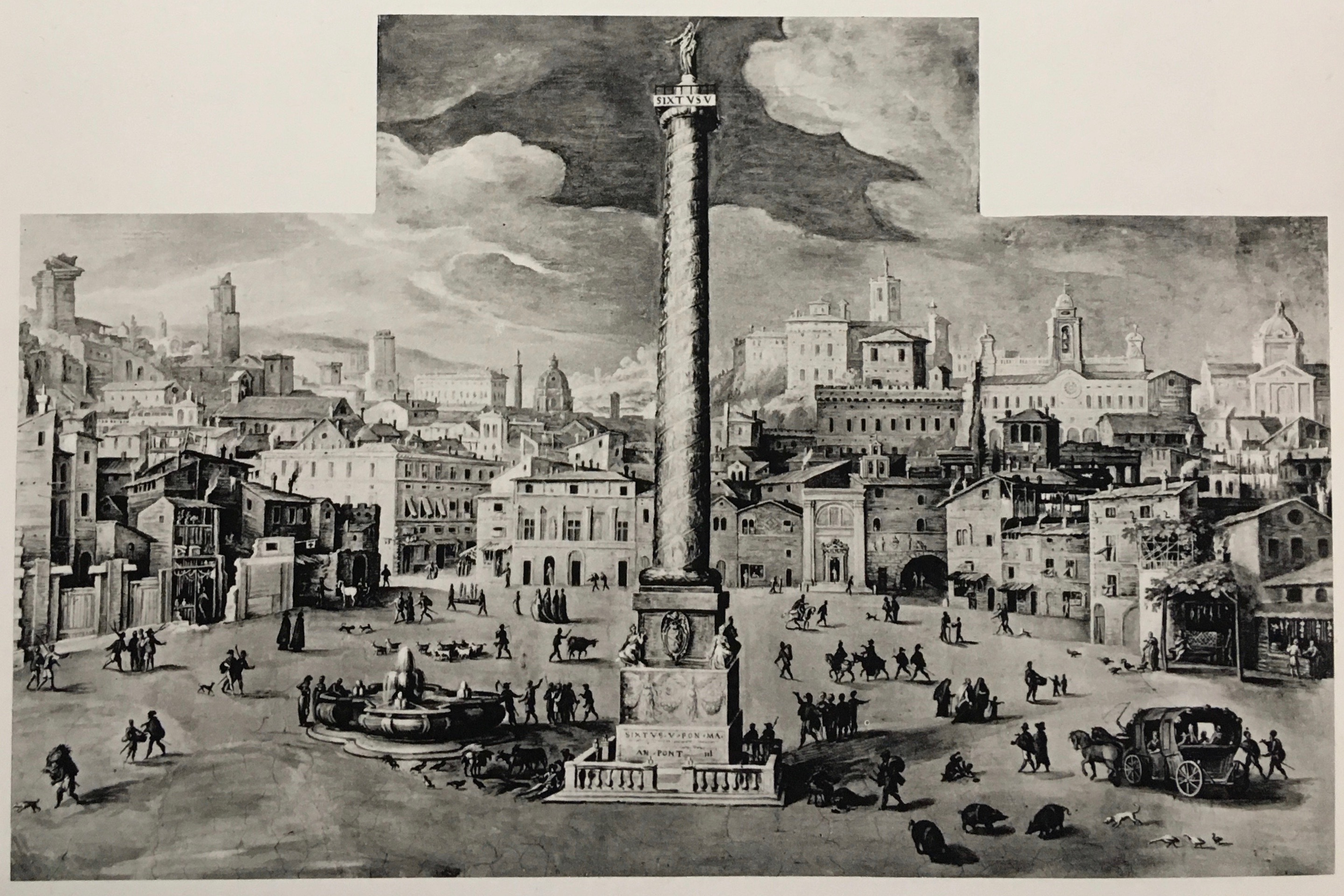 Fresco of Piazza Colonna in the Vatican Library, Rome